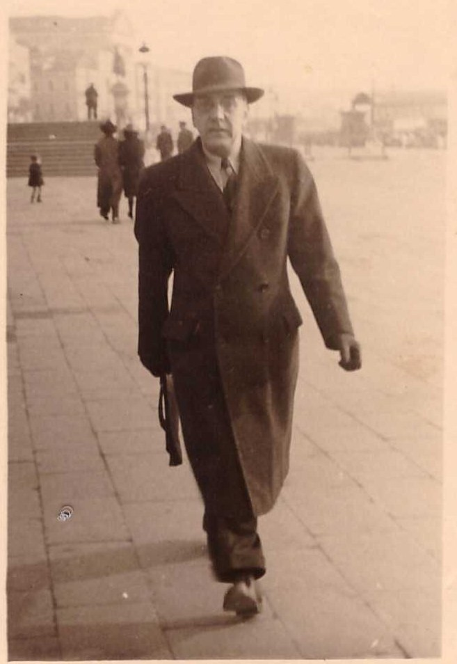 Giuseppe Magnarin a Venezia (anni '40)